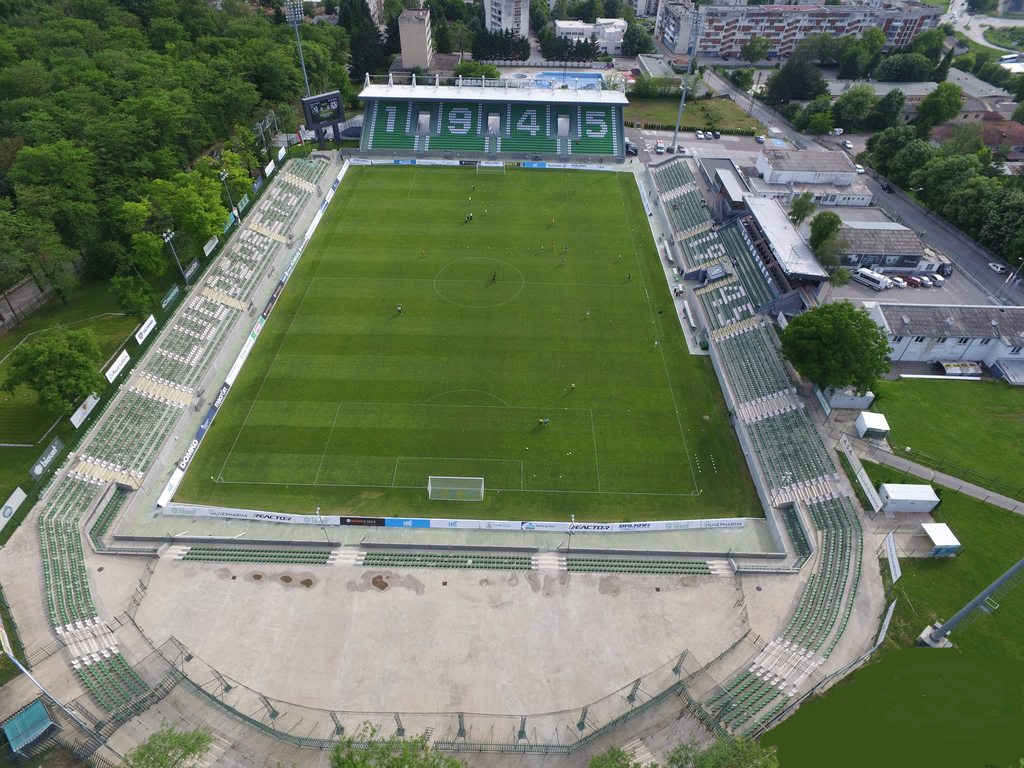 Aerial photo of the Razgrad stadium used by PFC Ludogorets.